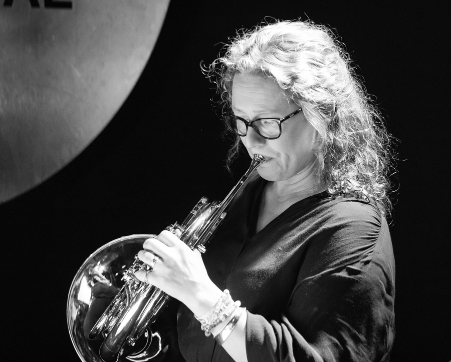 Hild Sofie Tafjord in a concert with Trondheim Jazz Orchestra + Atomic in Energimølla. The concert was part of Kongsberg Jazzfestival and took place on 03. July 2019 in Kongsberg. Lineup:Magnus Broo (trumpet)Fredrik Ljungkvist (saxophone and clarinet)Håvard Wiik (piano)Ingebrigt Håker Flaten (double bass)Hans Hulbækmo (drums)Signe Krunderup Emmeluth (alto saxophone)Per Texas Johansson (tenor saxophone)Hild Sofie Tafjord (french horn)Ole Jørgen Melhus (trombone)Ola Kvernberg (violin)Lene Grenager (cello)Kyrre Laastad (drums and percussion)